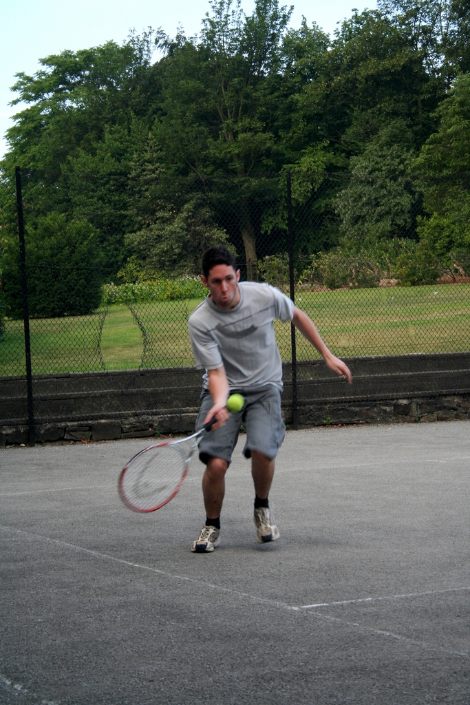 Adam reaching for a forehand